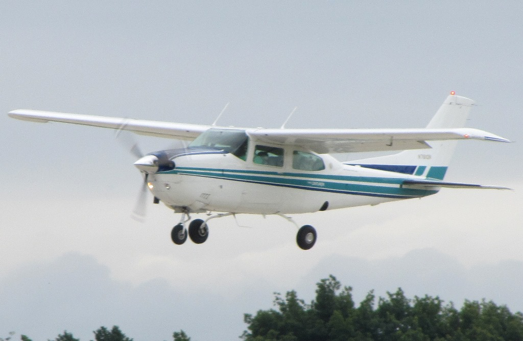 1978 Cessna T210N